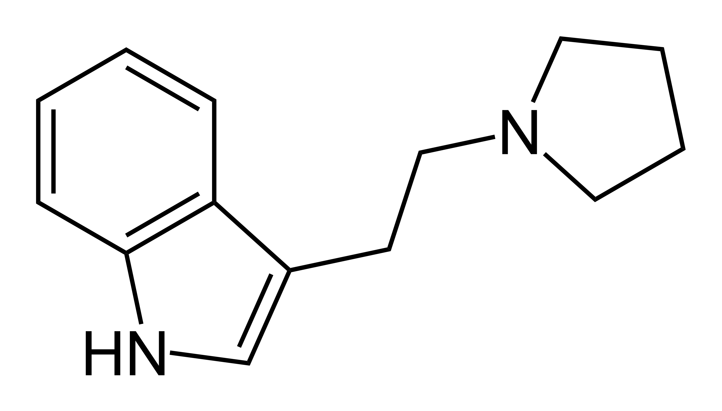 Chemical structure of Pyr-T